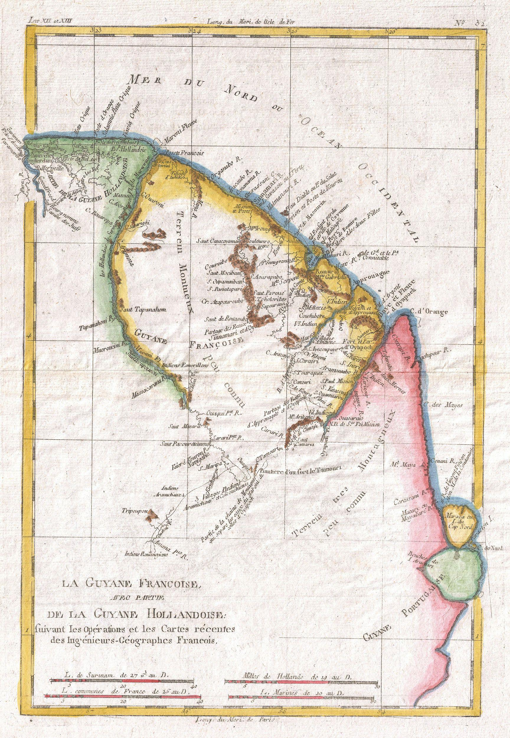 A fine example of Rigobert Bonne and Guilleme Raynal’s 1780 map of northeastern South America, depicting Guyana (Guyane). Covers parts of British Guyana, Dutch Surinam in the north, French Guyana (Guyane), modern day Mayapa, a Brazilian state, and Cap de Nord in the south. Most of the data for this map is drawn from records compiled under the Dutch West India Company, which traded throughout the region. While inland information is minimal, trading settlements and missions along both the Maroni River and the Tammouri are noted. Names numerous American Indian tribes and villages throughout. Additionally names Fort Oyapoque, modern day Oiapoque, and major cities, such as Paramibo, the present day capital of Suriname. Drawn by R. Bonne for G. Raynal’s Atlas de Toutes les Parties Connues du Globe Terrestre, Dressé pour l'Histoire Philosophique et Politique des Établissemens et du Commerce des Européens dans les Deux Indes .